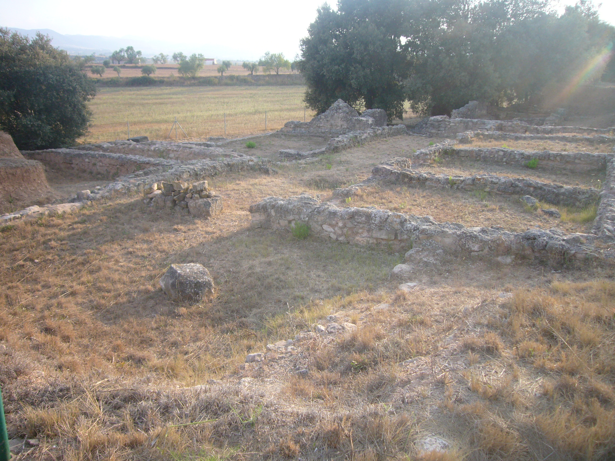 Roman arqueological site, in l'Espelt, Catalonia